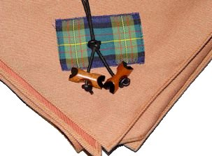 Picture of Scout wood badge bead and Neckerchief